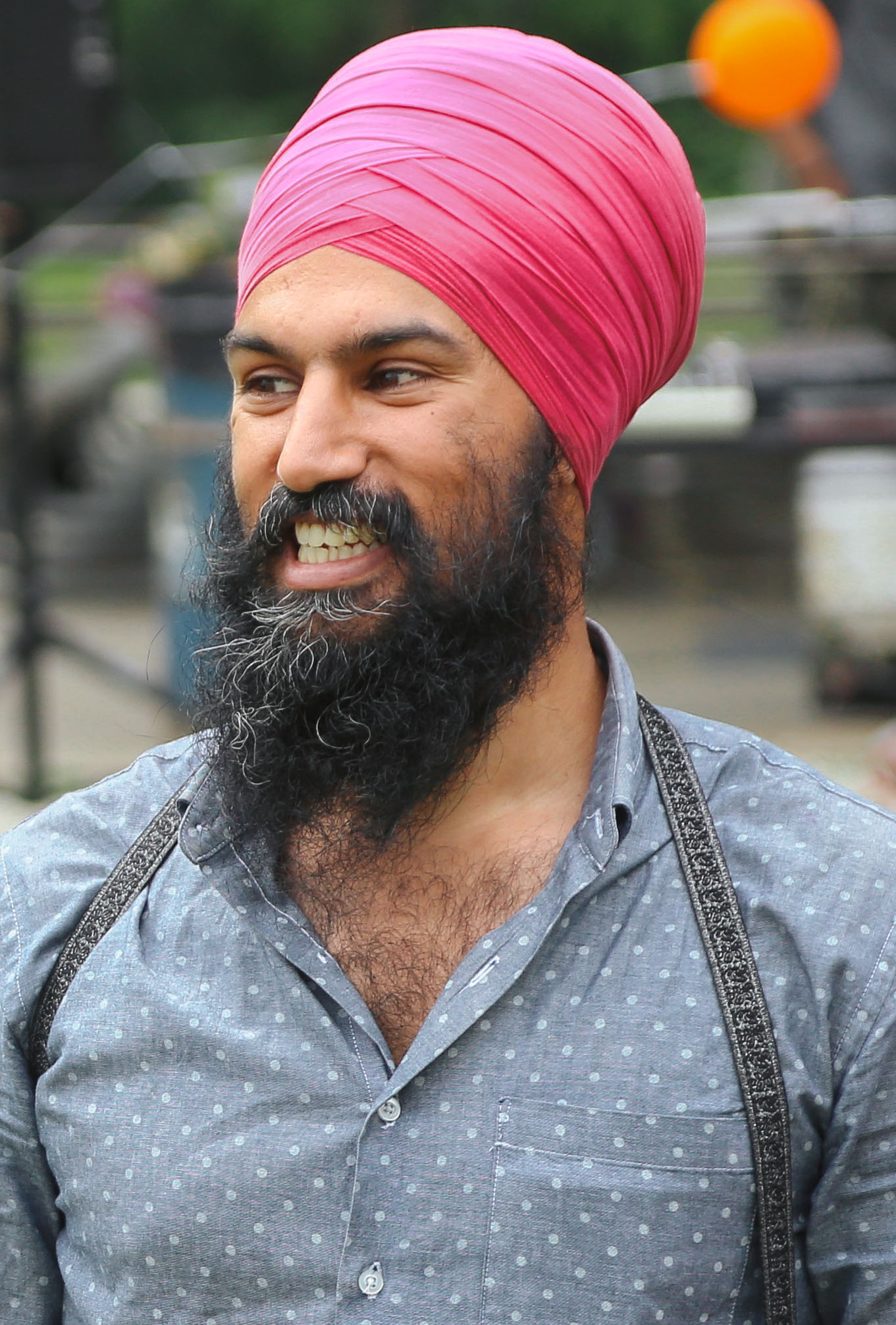 This is a picture of MPP Jagmeet Singh at his annual community BBQ in 2014, taking place at Wildwood Park in Malton, Ontario.